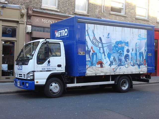 Metro, The Free Newspaper delivery van Launched in London in 1999 The Metro started a craze in free newspapers, now it is the UK's fourth largest daily newspaper. The Metro is part of the same media group as the Daily Mail, The Mail on Sunday and the Evening Standard. The Metro has a contract with London Underground allowing it to distribute the paper inside tube stations unlike the Free evening newspapers who set up stalls outside stations. This delivery van is parked on the A400, Kentish Town Road For more on the Metro visit Wikipedia's article on it or the papers own website